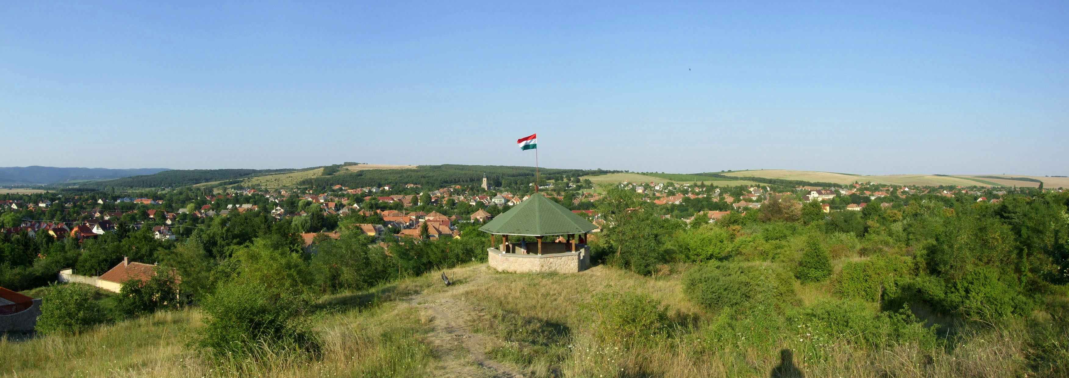 The view of Bogács, Hungary.